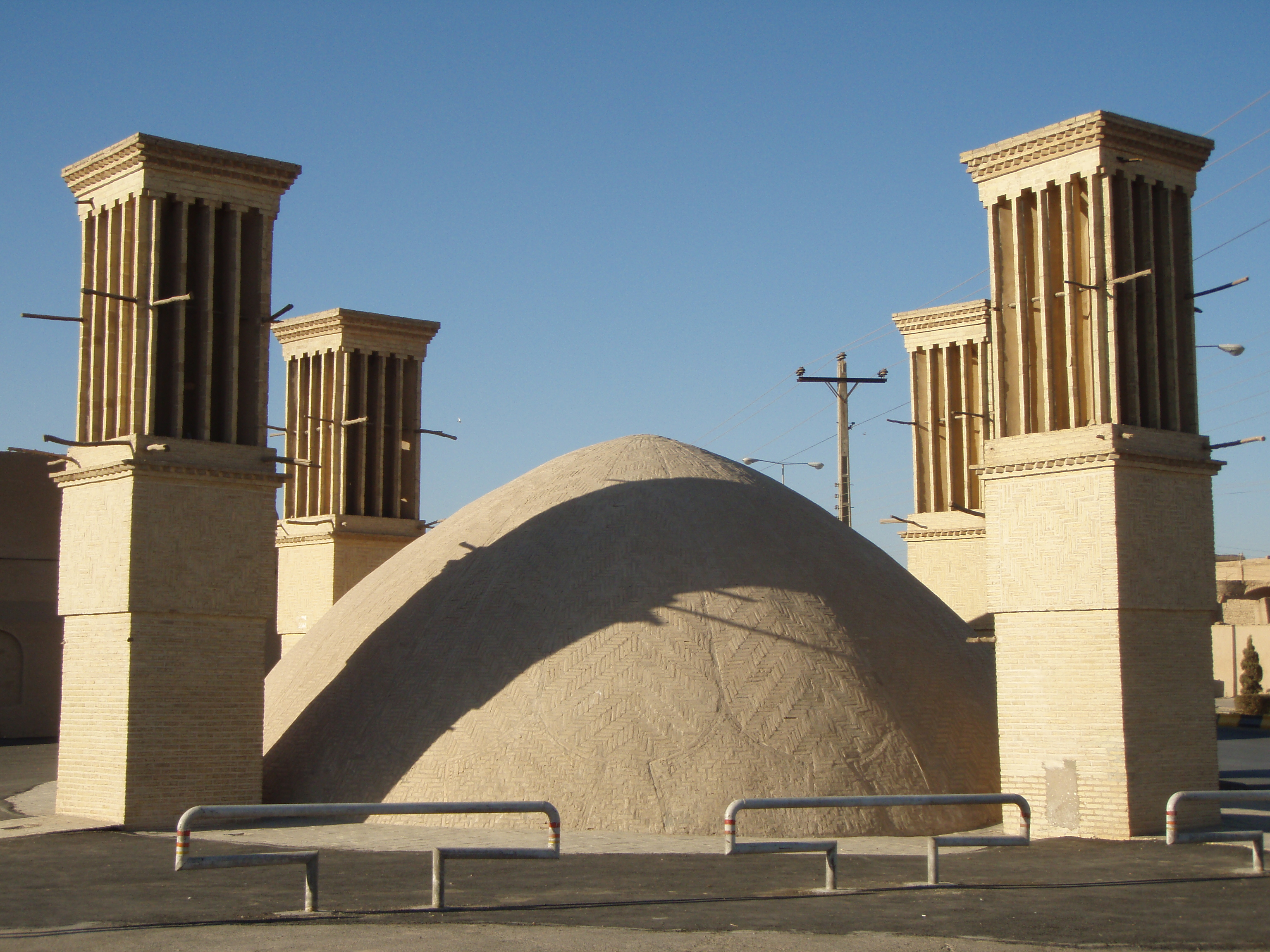 Badgir. Wind cooled water reservior, Yazd Iran.